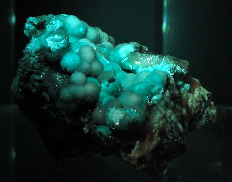 Bright-blue velvety rosasite mass lining a cavity, from 79 mine, Winkelman, Arizona, USA. Photograph taken at the Natural History Museum, London.